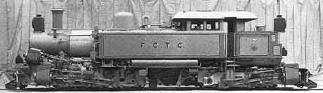 Kitson-Meyer on F.C.T.C.